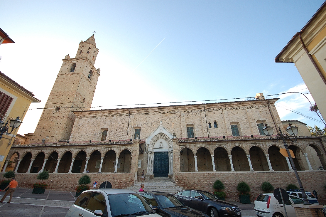 Sant Angelo